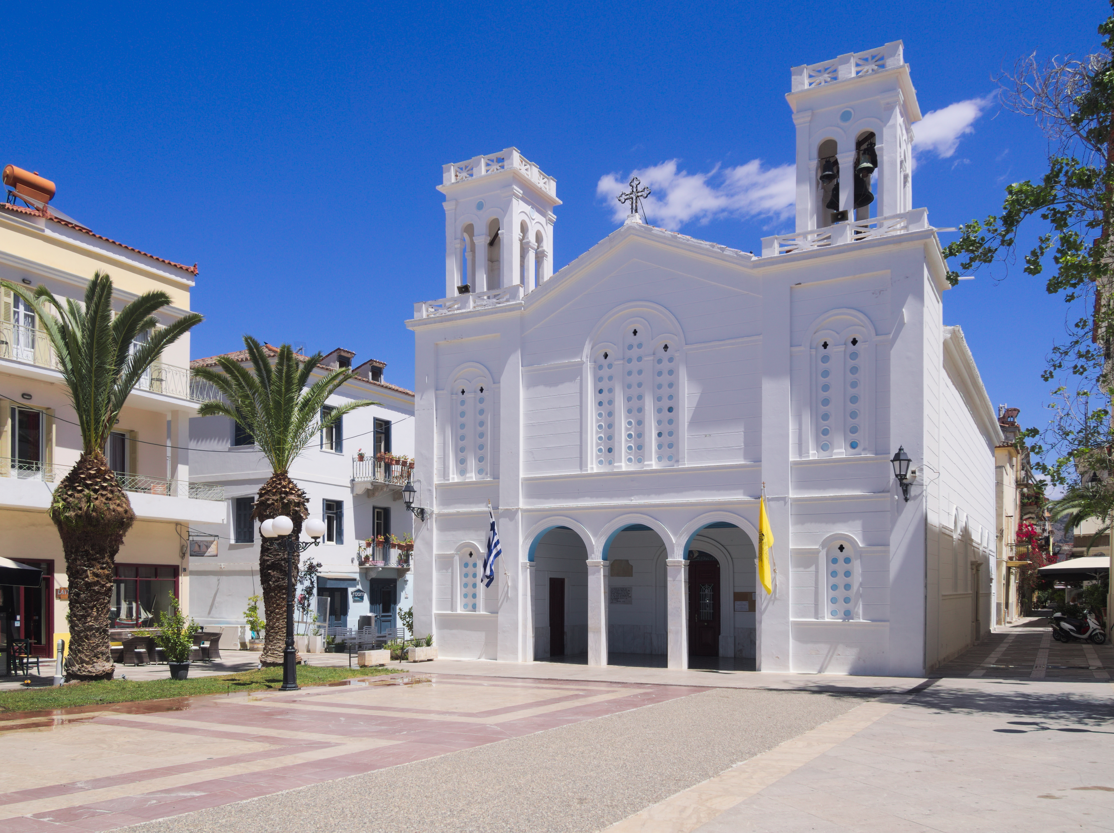 The church of Ayios Nikolaos at Nafplio.